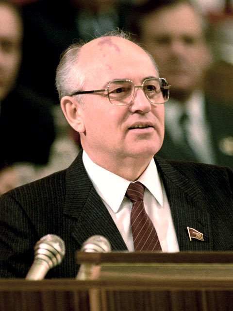 “General Secretary of the CPSU CC M. Gorbachev”. General Secretary of the CPSU Central Committee Mikhail Gorbachev speaking at the 20th Congress of the VLKSM. Kremlin Palace of Congresses.